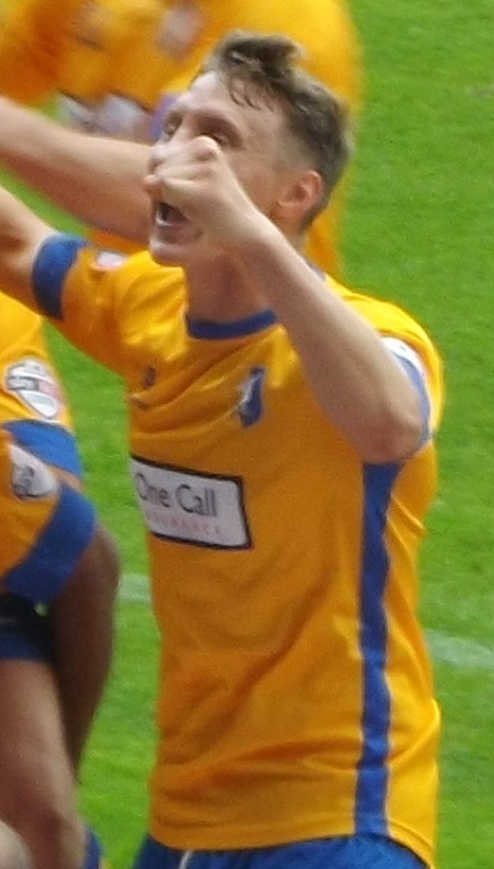 Martin Riley. Image cropped from original at flickr.